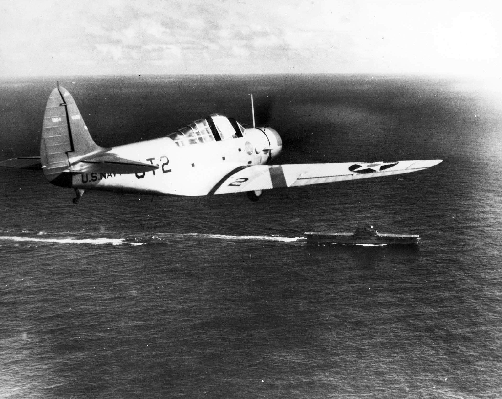 A U.S. Navy Douglas TBD-1 Devastator (BuNo 0323) of torpedo squadron VT-6 in flight over the aircraft carrier USS Enterprise (CV-6), 1938-1940. Note the squadron insignia, a Great White Albatross, on the fuselage beneath the cockpit. Established as VT-8S in 1937, the squadron was redesignated VT-6 that same year. Accepting delivery of its first TBD-1 aircraft in 1938, the squadron operated from Enterprise until August 1942. After losing ten of twelve TBDs during the Battle of Midway, VT-6 was reequipped with the Grumman TBF-1 Avenger. The TBD-1 BuNo 0323 was lost on 11 March 1941 while in service with VT-3.